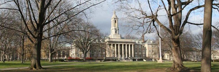 Old Main - Late Fall